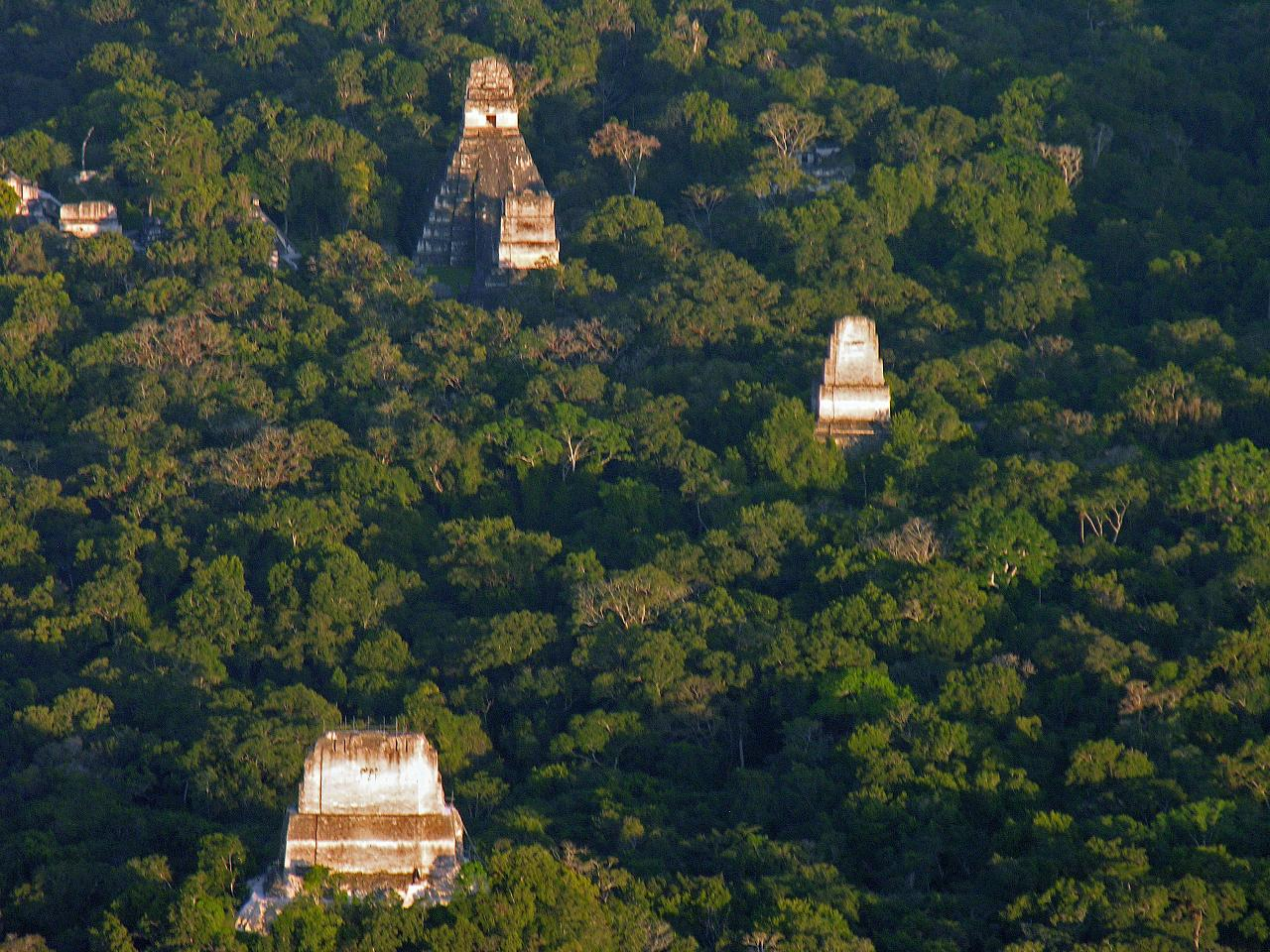 On the way back from El Mirador we flew over Tikal as the sun was setting on our way back to Flores. Guatemala